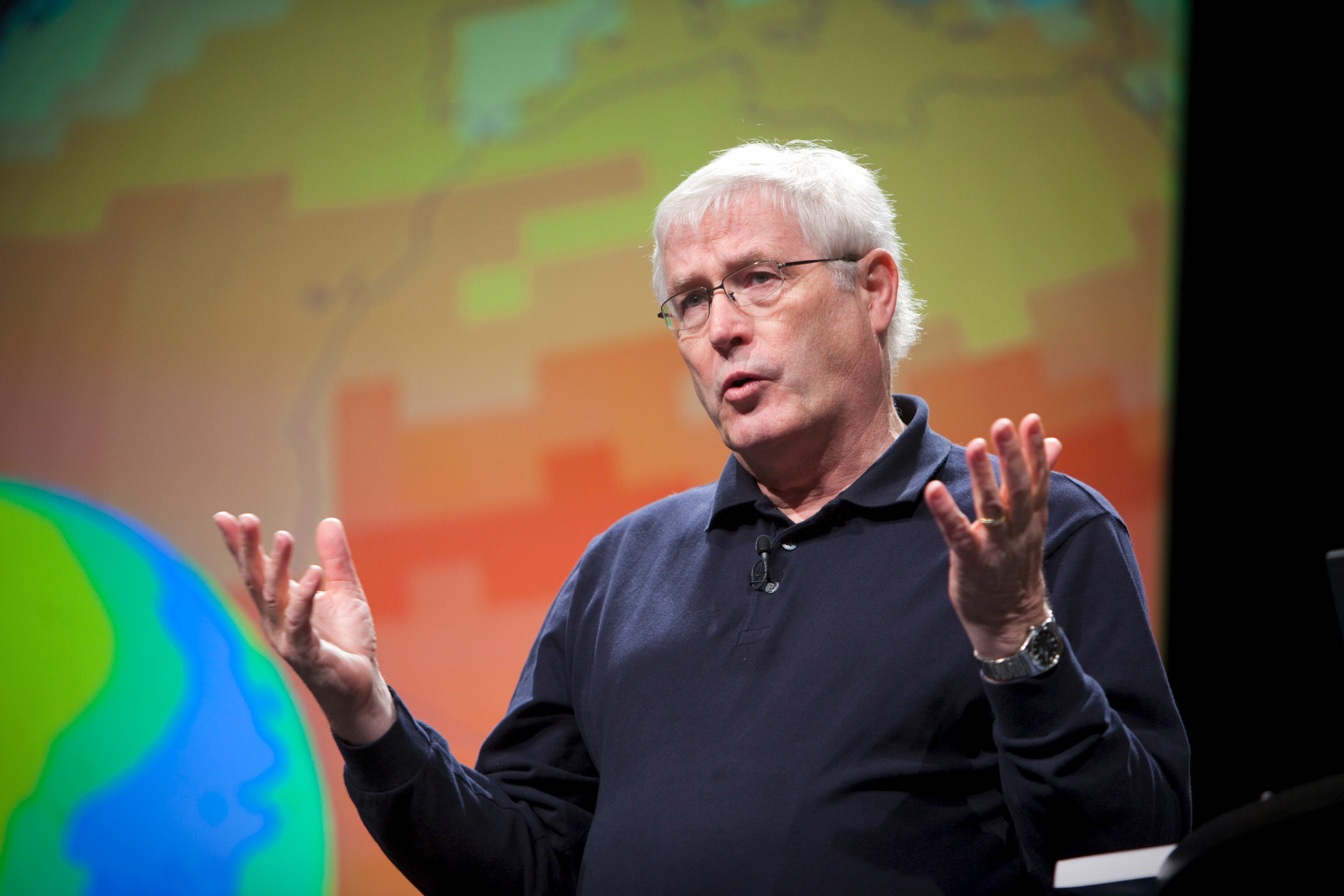 Professor Tony Hey